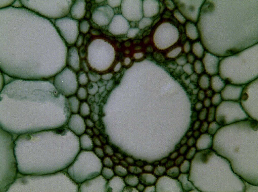 Rice stem mangified 400 times